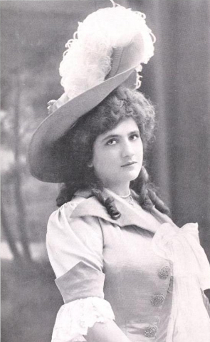 A young white woman, wearing a large hat with a white plume.